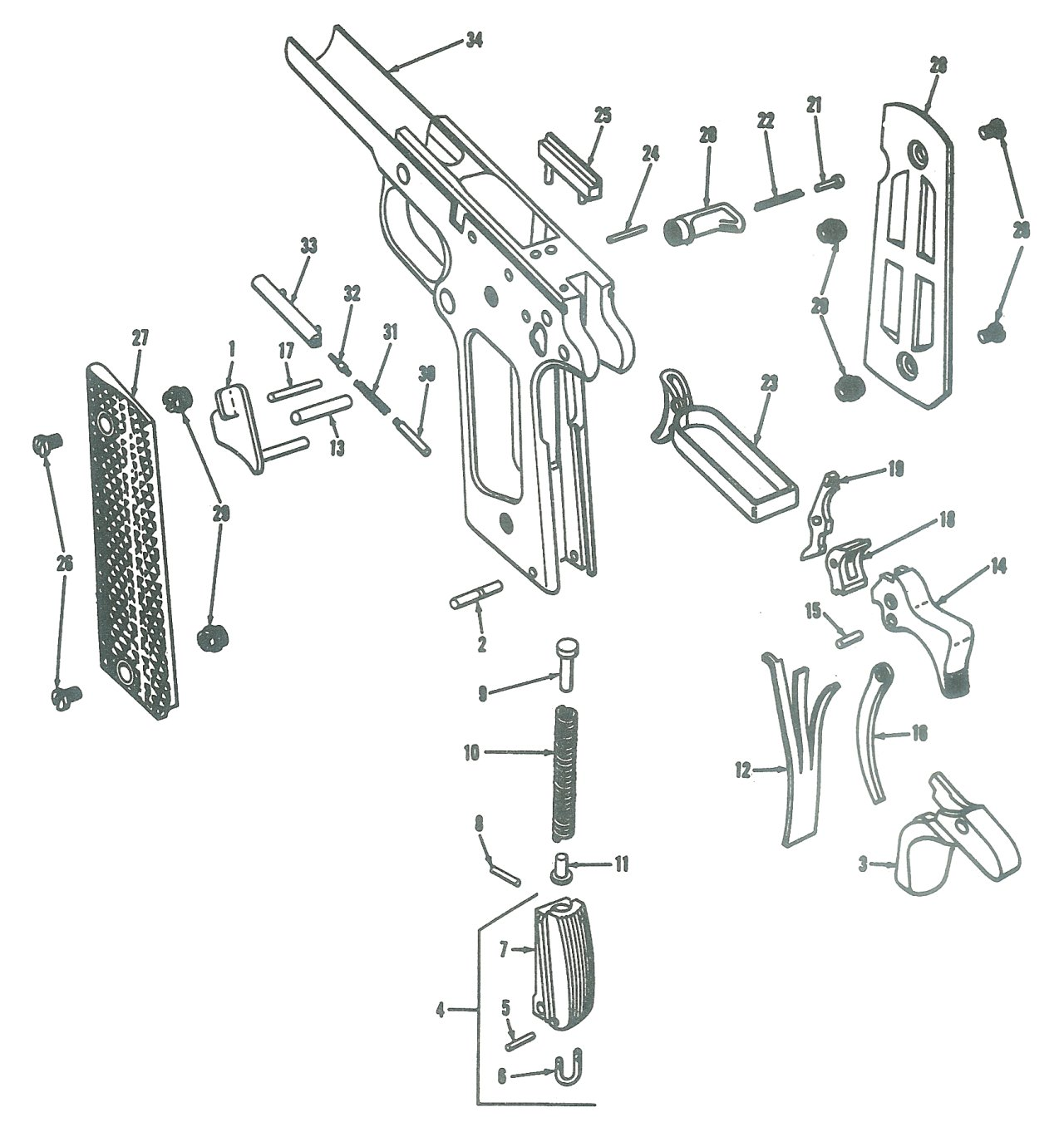 Exploded view of "Pistol Caliber .45, Automatic: M1911A1"